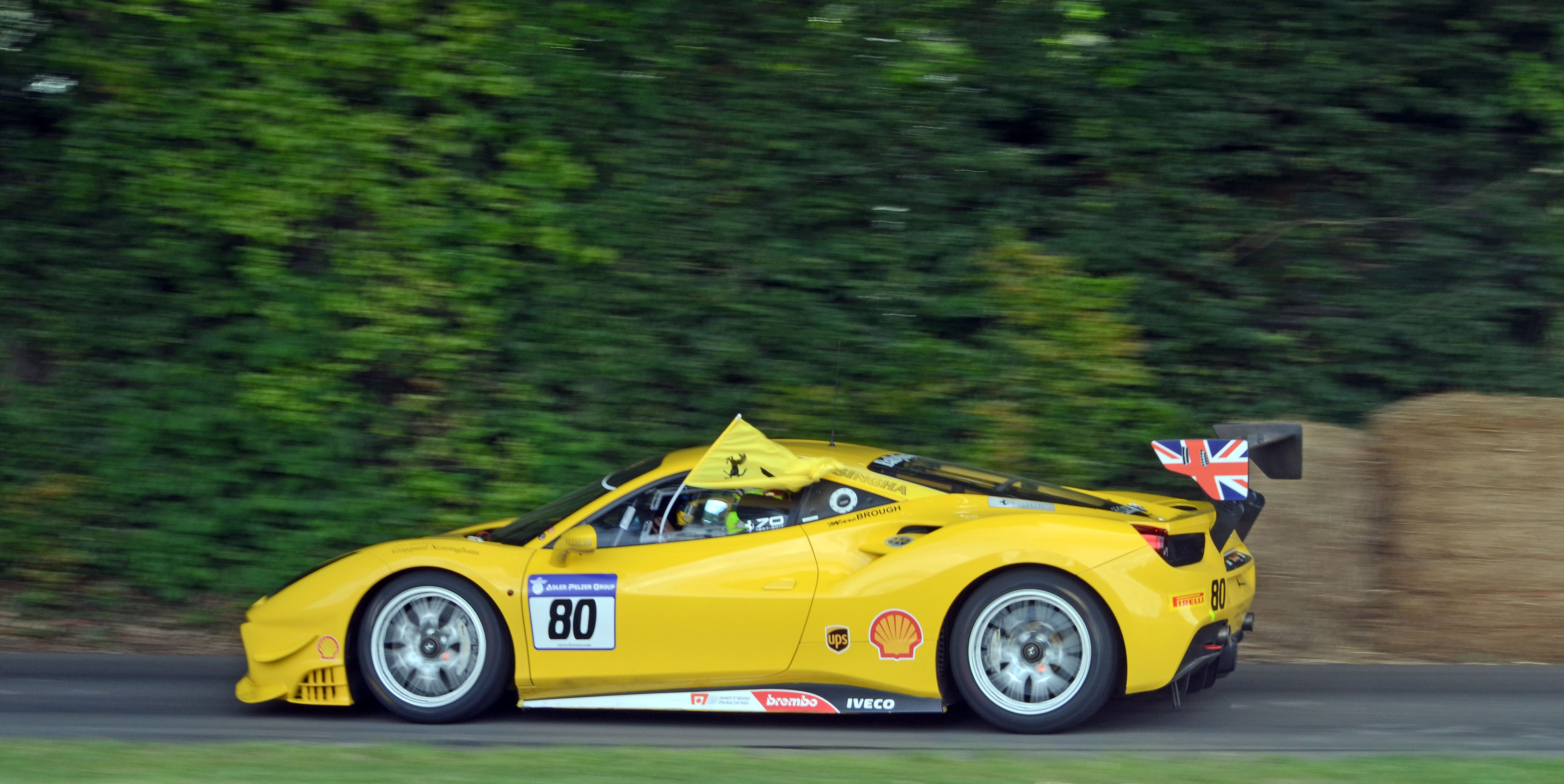 Goodwood Festival of Speed 2017